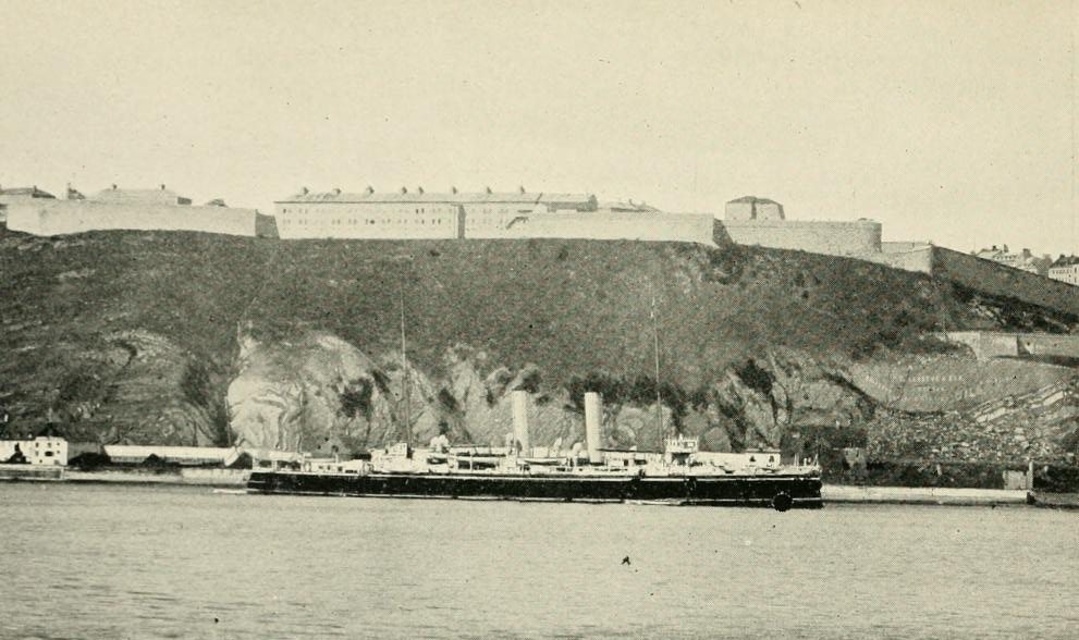 HMS Crescent 1901, photograph taken during the 1901 royal tour of Canada by Duke and Duchess of Cornwall and York, taken from the book "The Yankee in Quebec" by Anson Albert Gard.